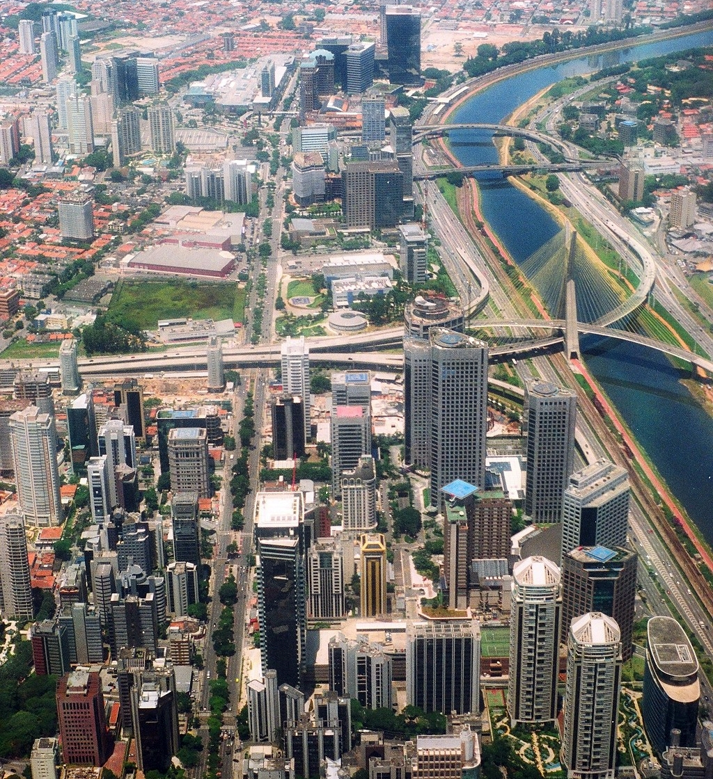 Centro financeiro entre a Marginal Pinheiros e a Avenida Engenheiro Luís Carlos Berrini.